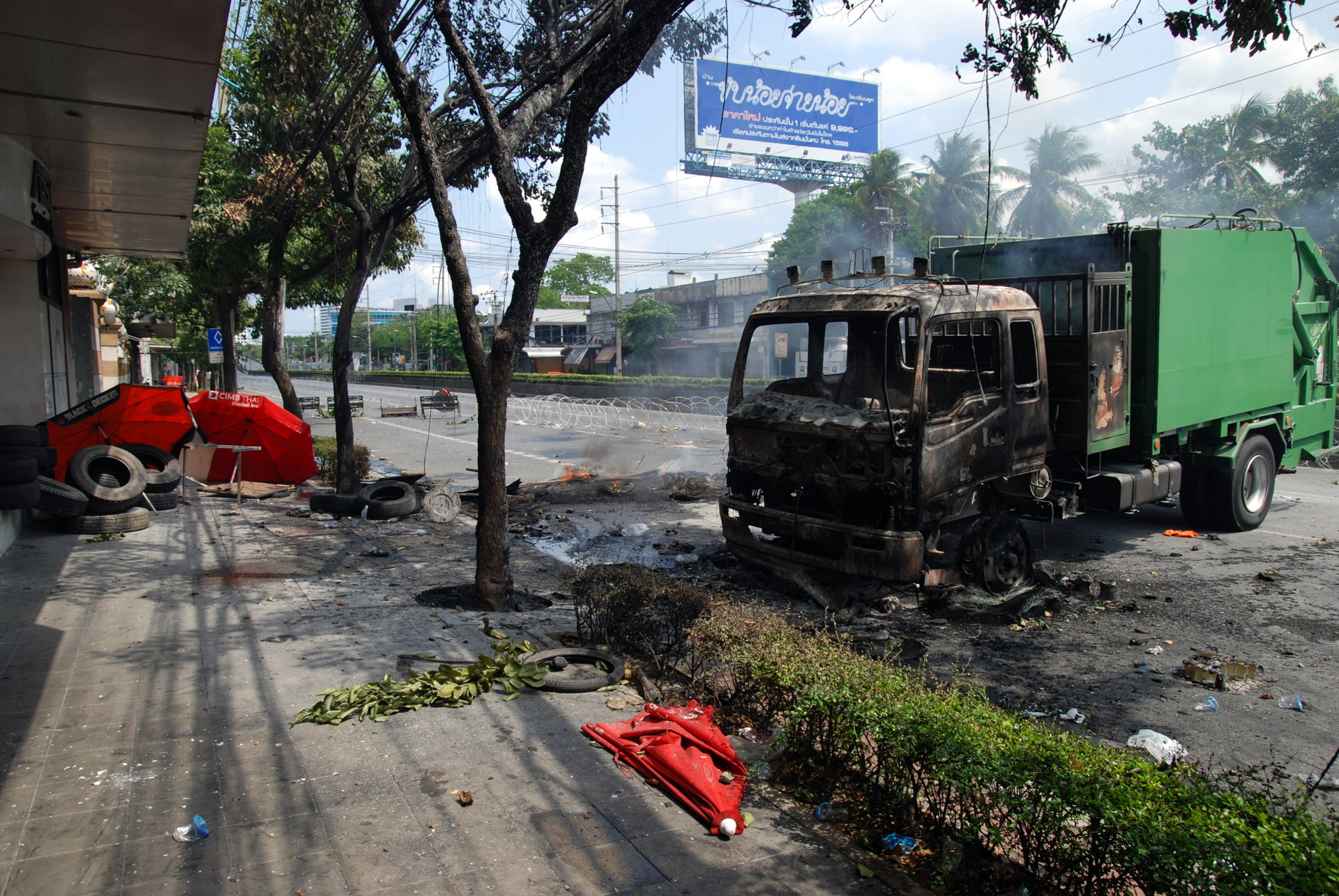 A burned out truck blocking Rama 4 road around the corner from Soi Ngam Duphli. This is part of no-man's land: security troops hold the area towards Sathorn road. Government snipers hold position in the building located behind the truck.